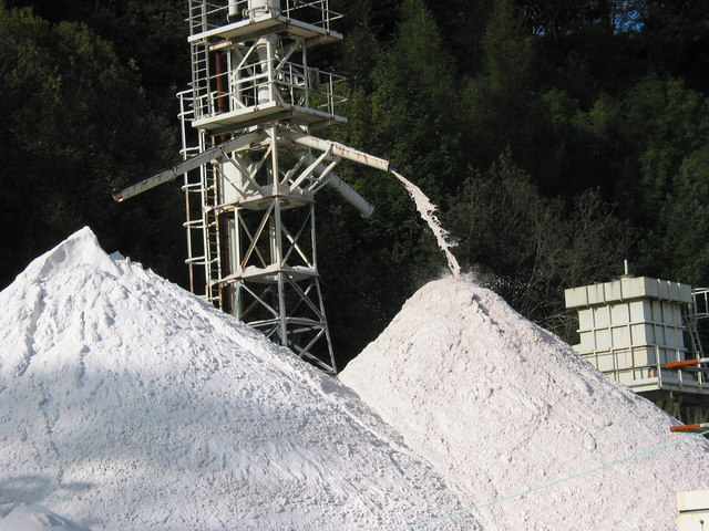 Strontian sand mine-washed sand Pile of washed iron free quartz sand ready for loading onto ship.